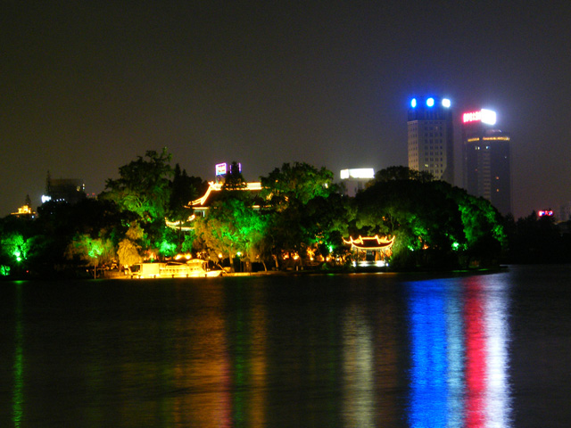 Jiaxing Southlake in dark